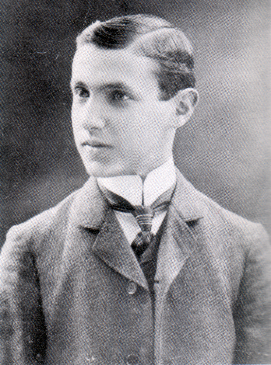 Caption: Motty Eitingon as a young man.